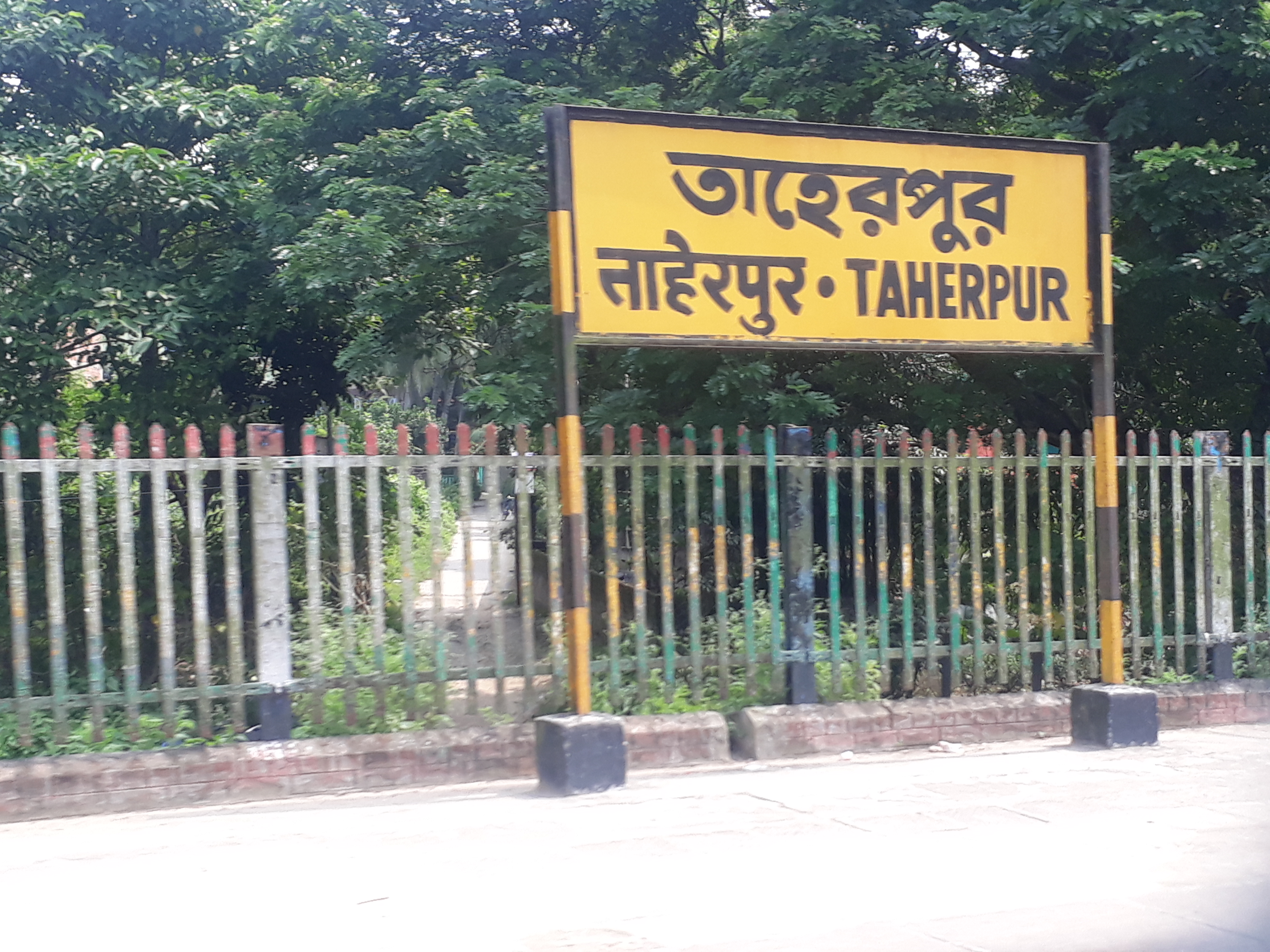 Taherpur railway station In Sealdah main line, Nadia, West Bengal